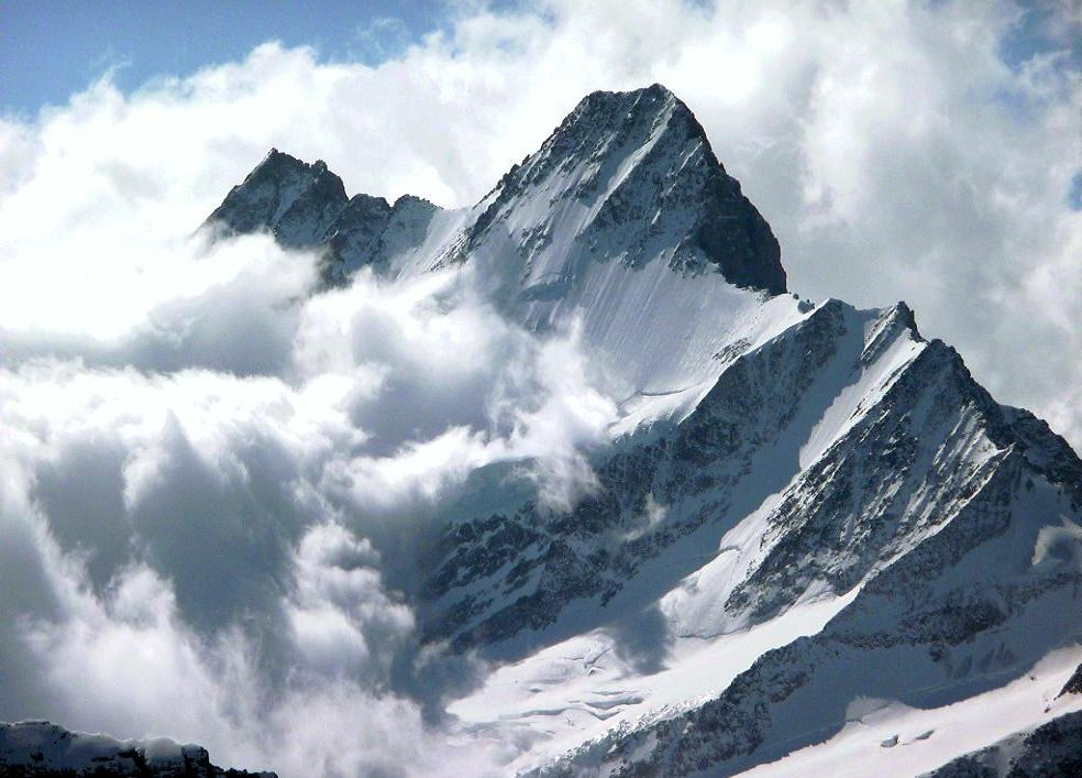 Schreckhorn (from north). One of the highest peaks in the Bernese Oberland.